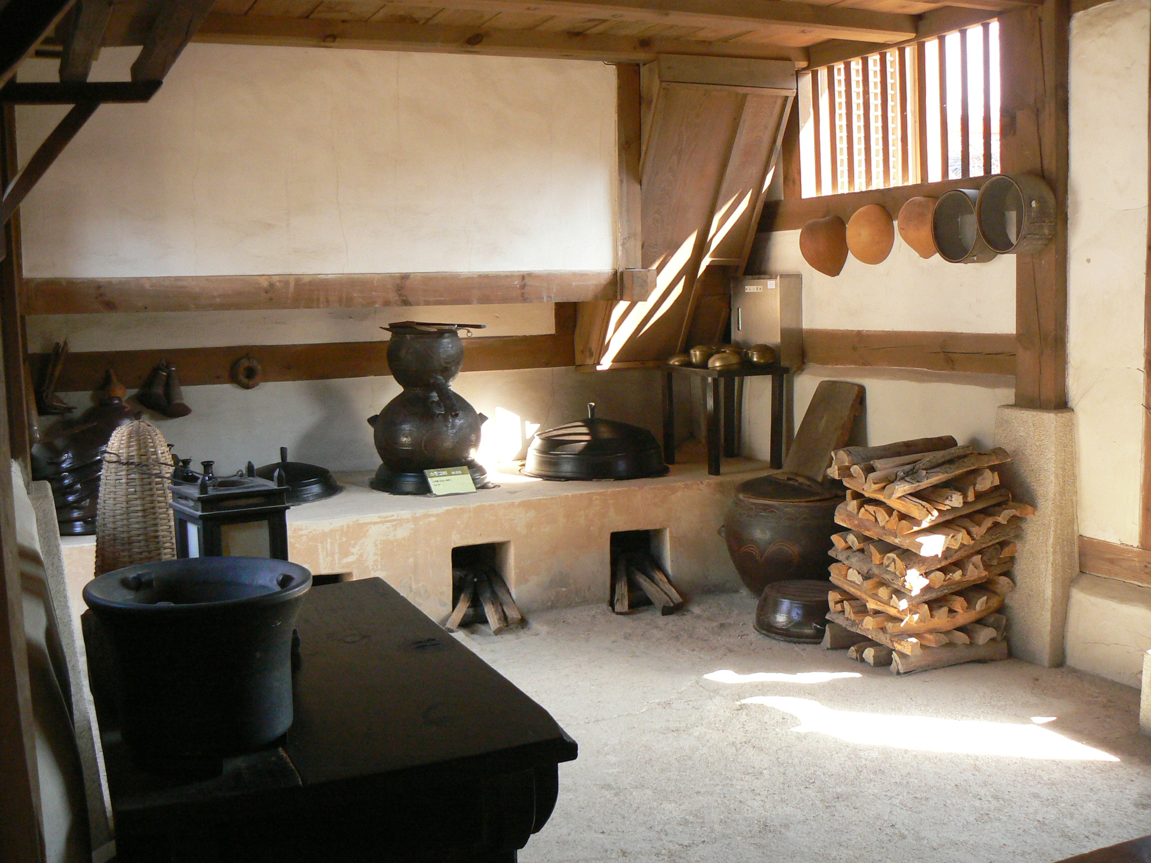 Hanok kitchen